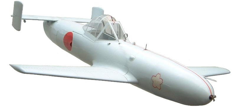 Japanese Ohka at the Yasukuni Shrine. Note that I've deleted a guy in the bottom left corner of the photo. This is a replica of the Yokosuka MXY7 Ohka Model 11.